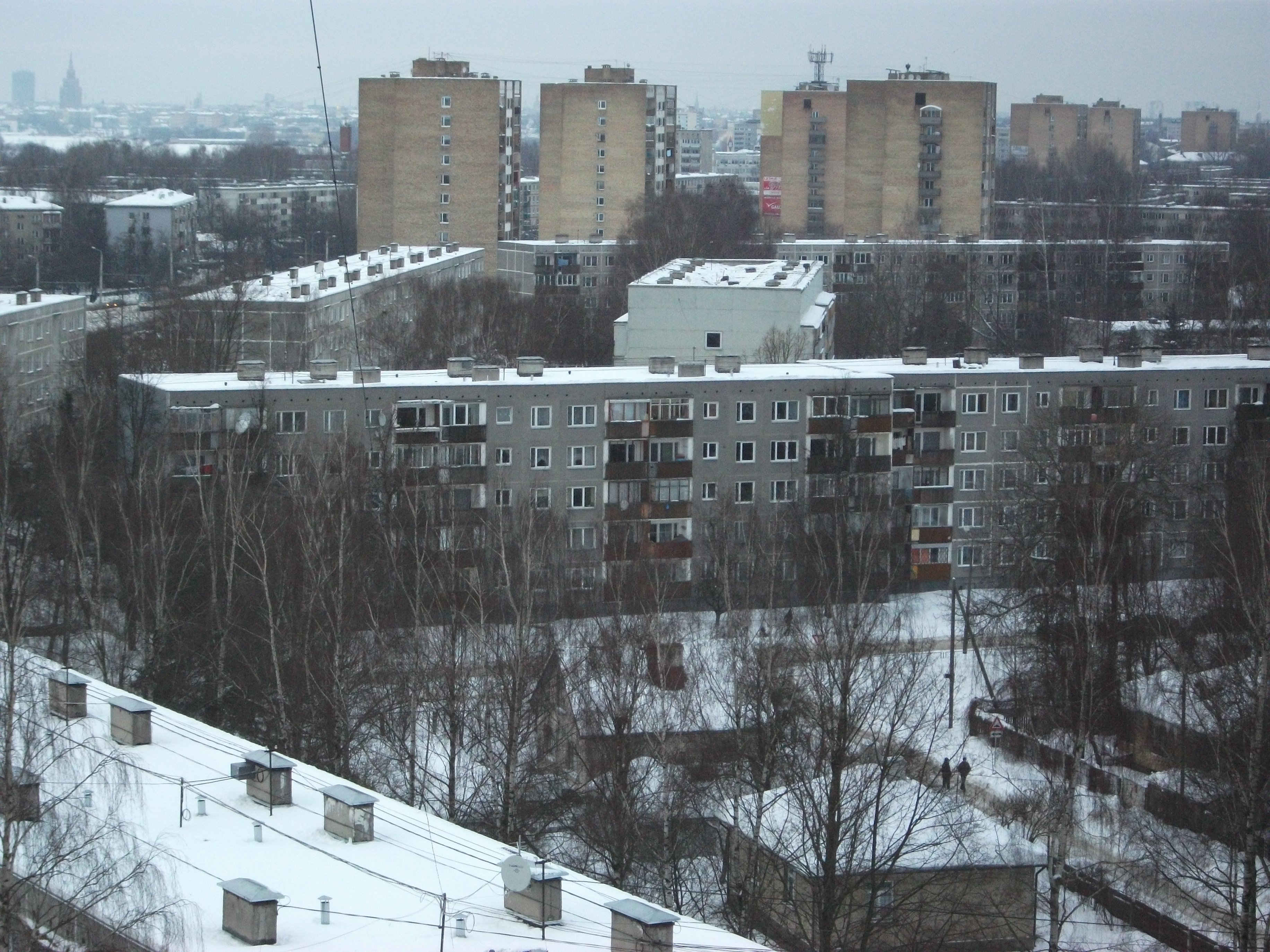 Charasteristic elements of the image of Ķengarags.